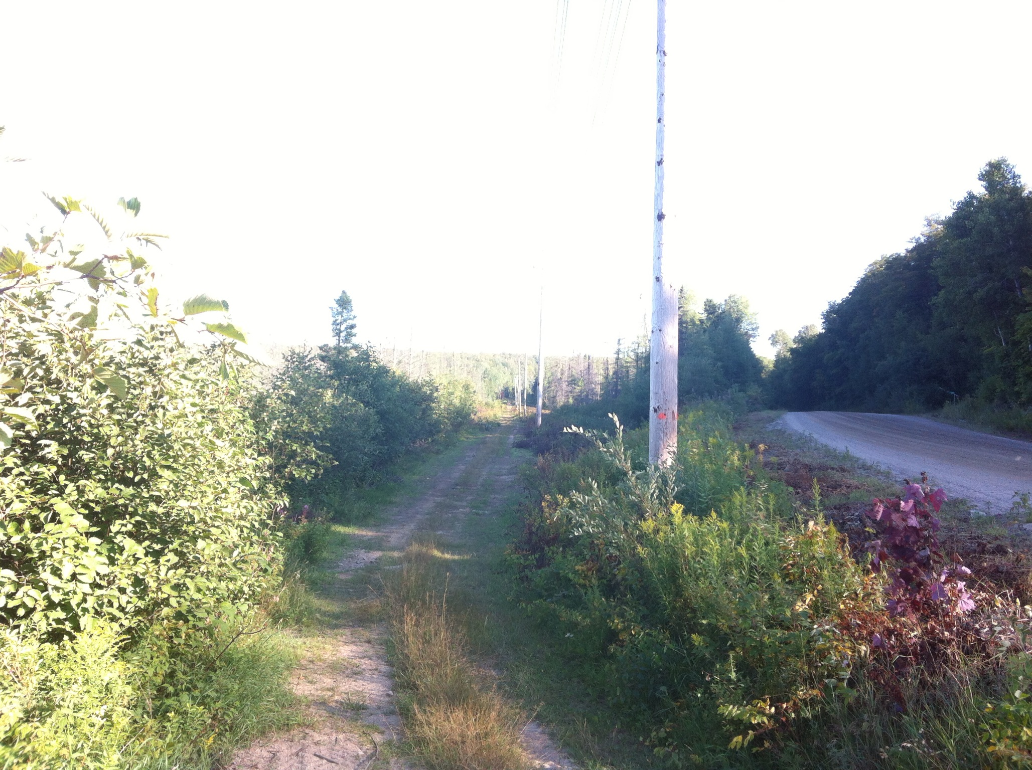 This is the northernmost "navigable" point on the remains of the Central Ontario Railway, located at the corner of McKenzie Lake Road (on the right) and McKenzie Road North (just behind the photographer). The line is continuous from this point all the way to Glen Ross, over 150 km to the south, and then almost continuous to just outside of Picton, about 200 km away. This section is not officially maintained for trail use, but is nevertheless heavily used and also kept clear of bush to provide service access to the power lines running down the western (right) side of the trail. The last few meters closest to the photographer, the curved portion that starts at the last pole, are not part of the original road bed and were constructed more recently to provide access. Only 2.4 km of the COR lay north of this point, but it no longer has a roadway.